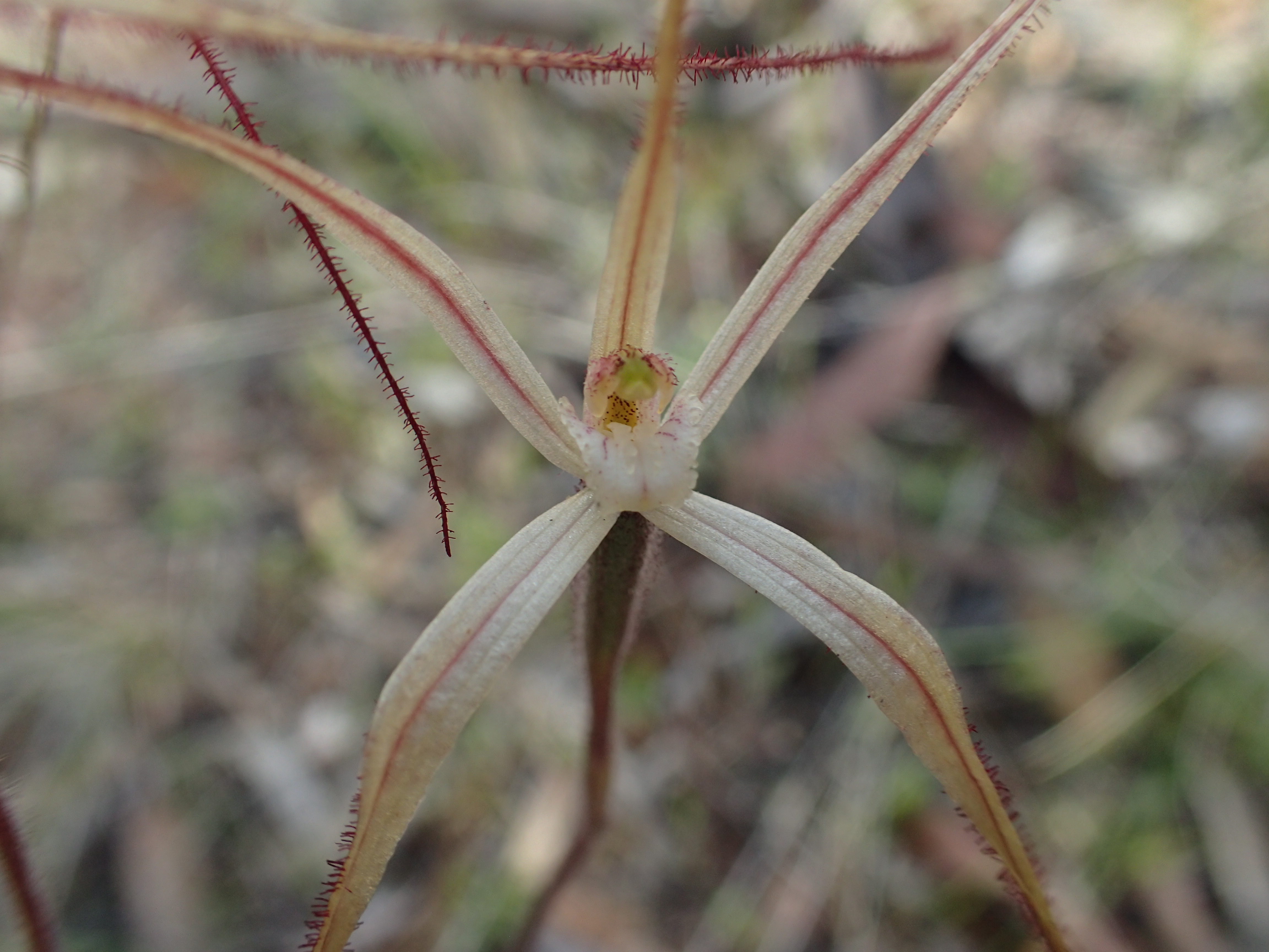 Caladenia microchila growing near Ravensthorpe, Western Australia